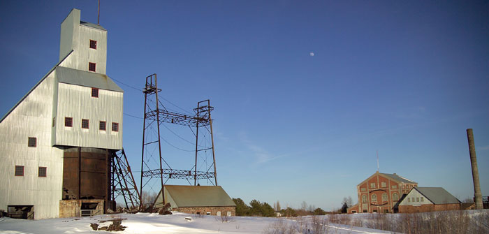 The #2 Shafthouse (left) and the Hoist House (right) are the Quincy Mine's main features. The steam hoist, still located inside, is the largest steam hoist in the world.